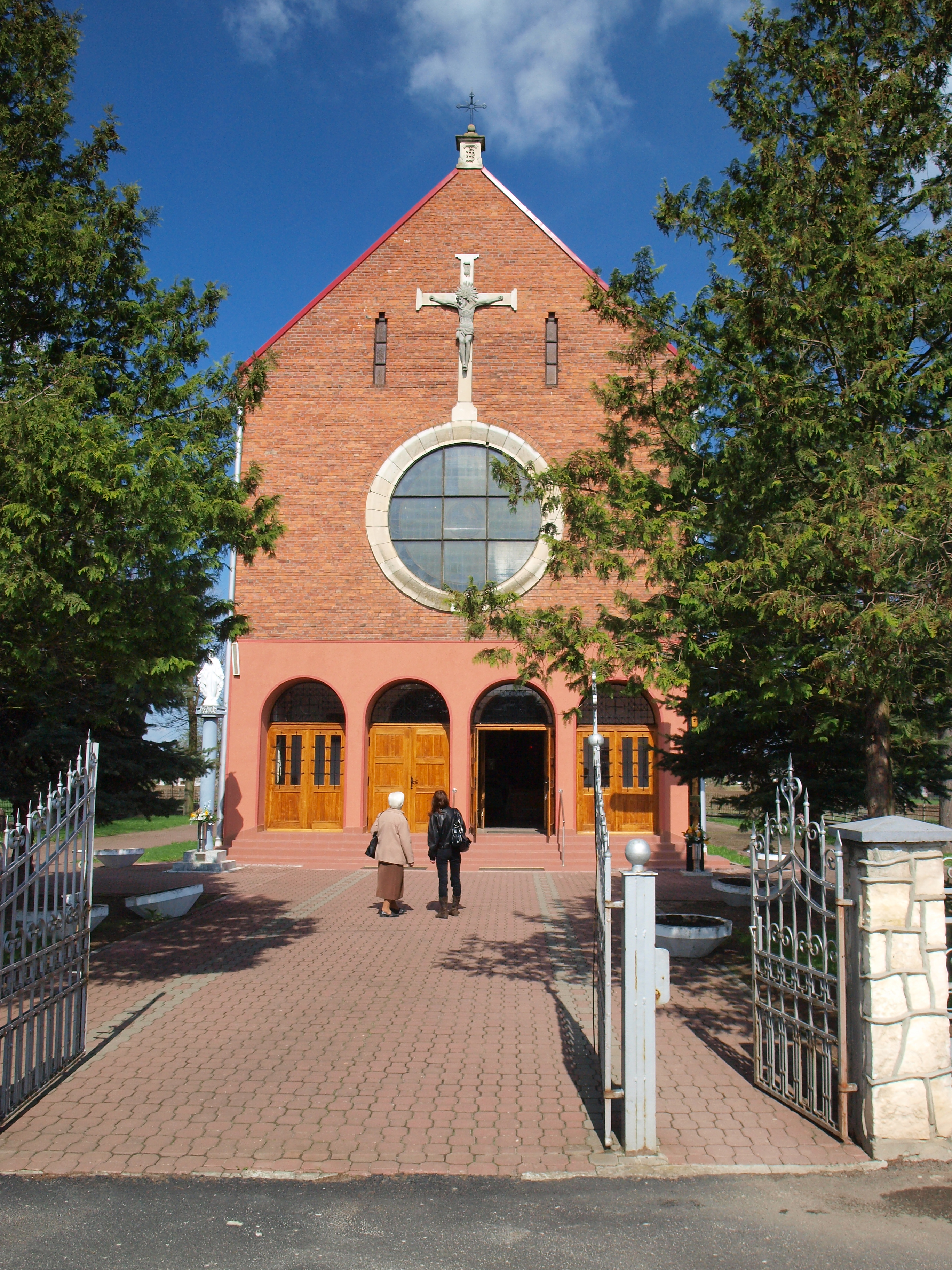 Samocice, parish church of St. Bartholomew.